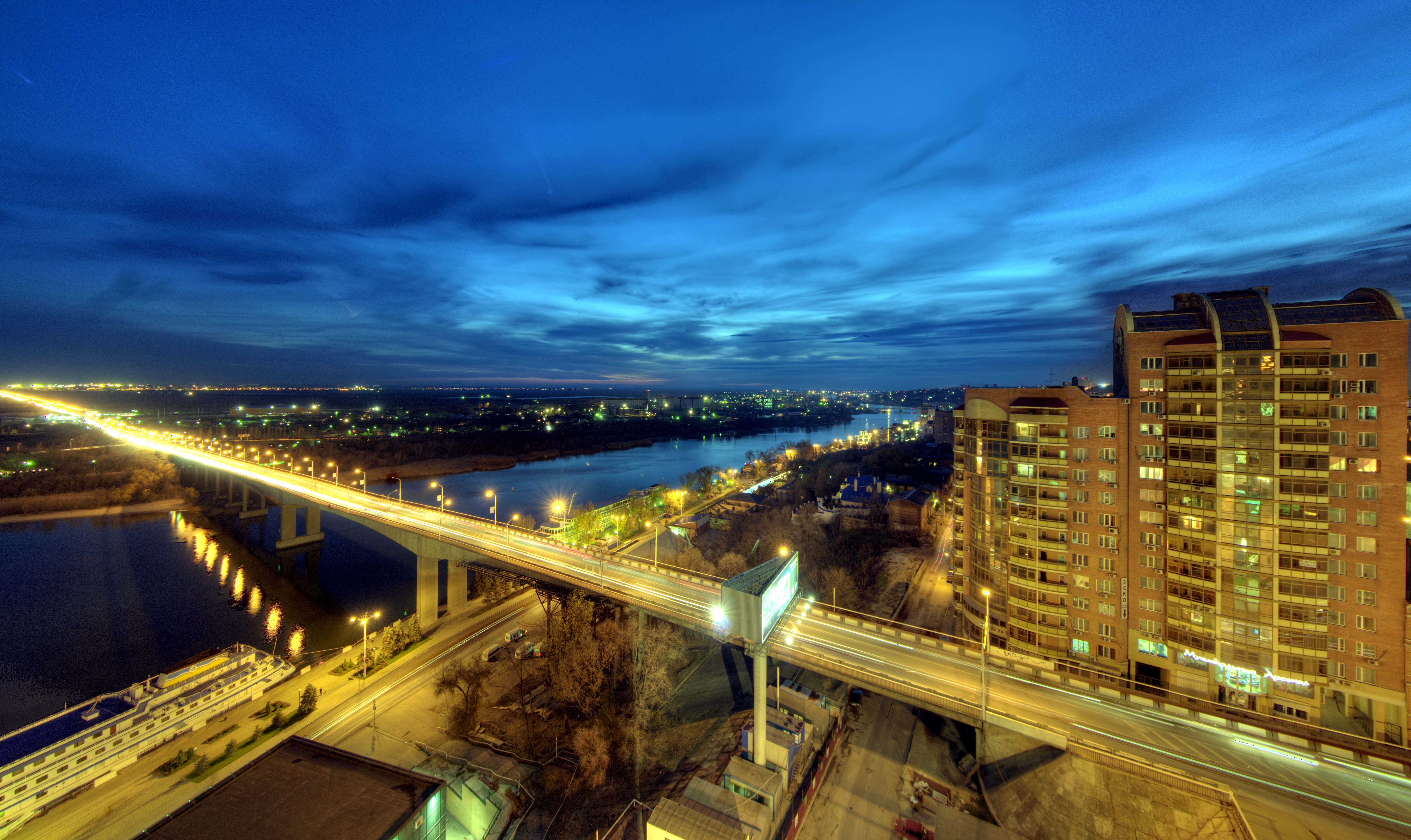 View of Voroshilovsky bridge, Leberdon and Don river. Rostov-on-Don, Russia.